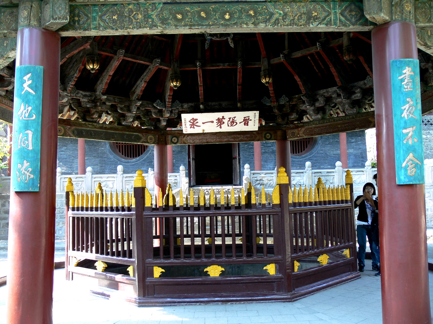 Nanlao Spring in Jin Temple